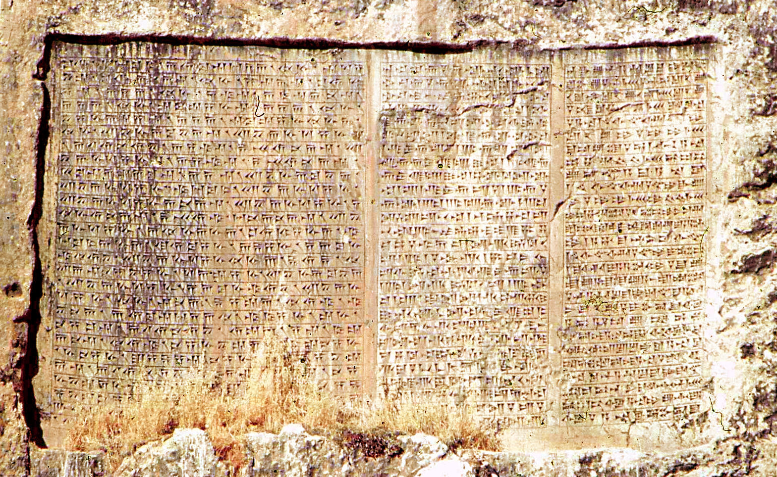 Inscription of Xerxes the Great, Van Citadel.